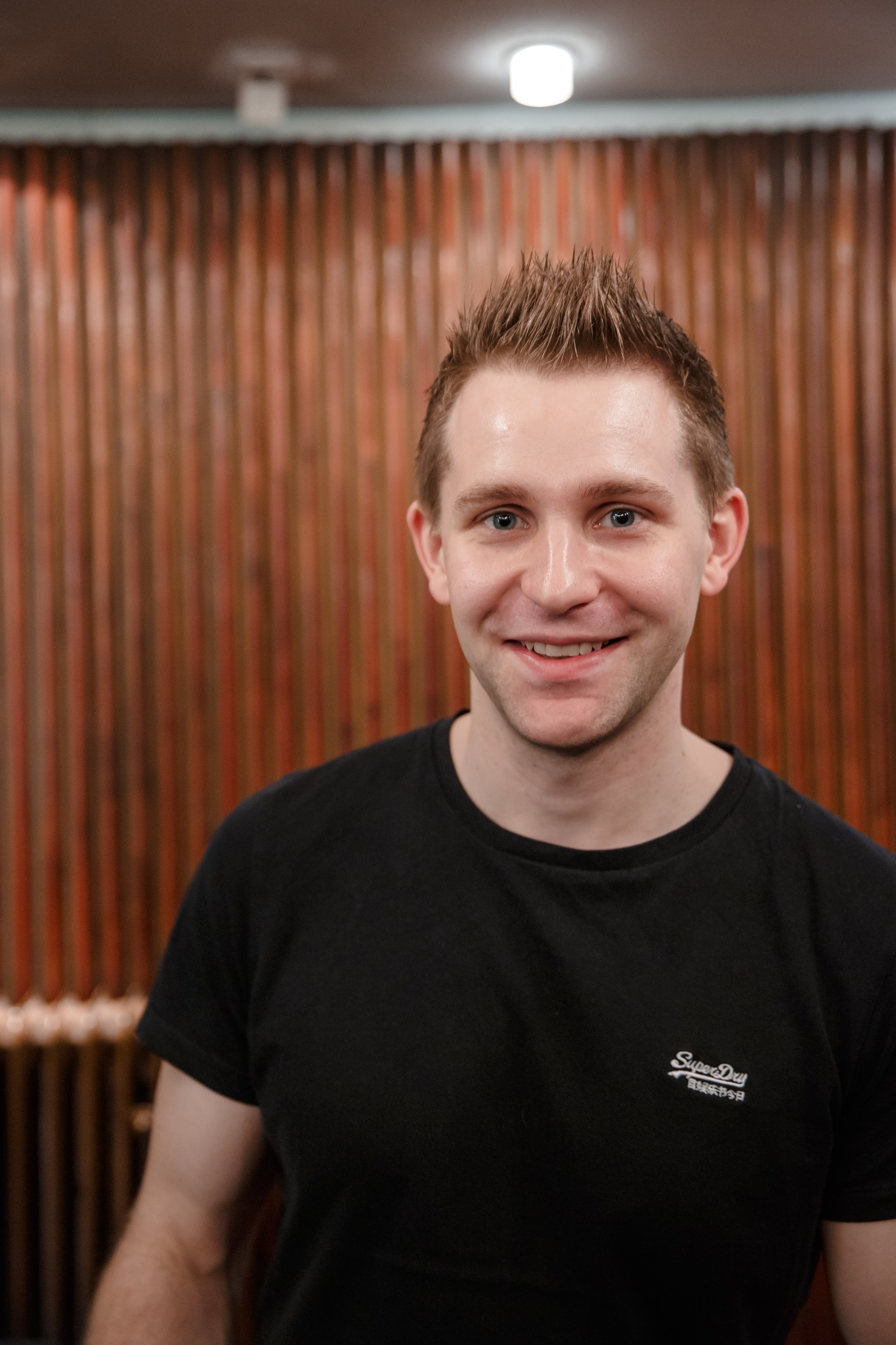 Max Schrems at the Austrian premiere of the documentary film Democracy at Filmcasino in Vienna, Austria).